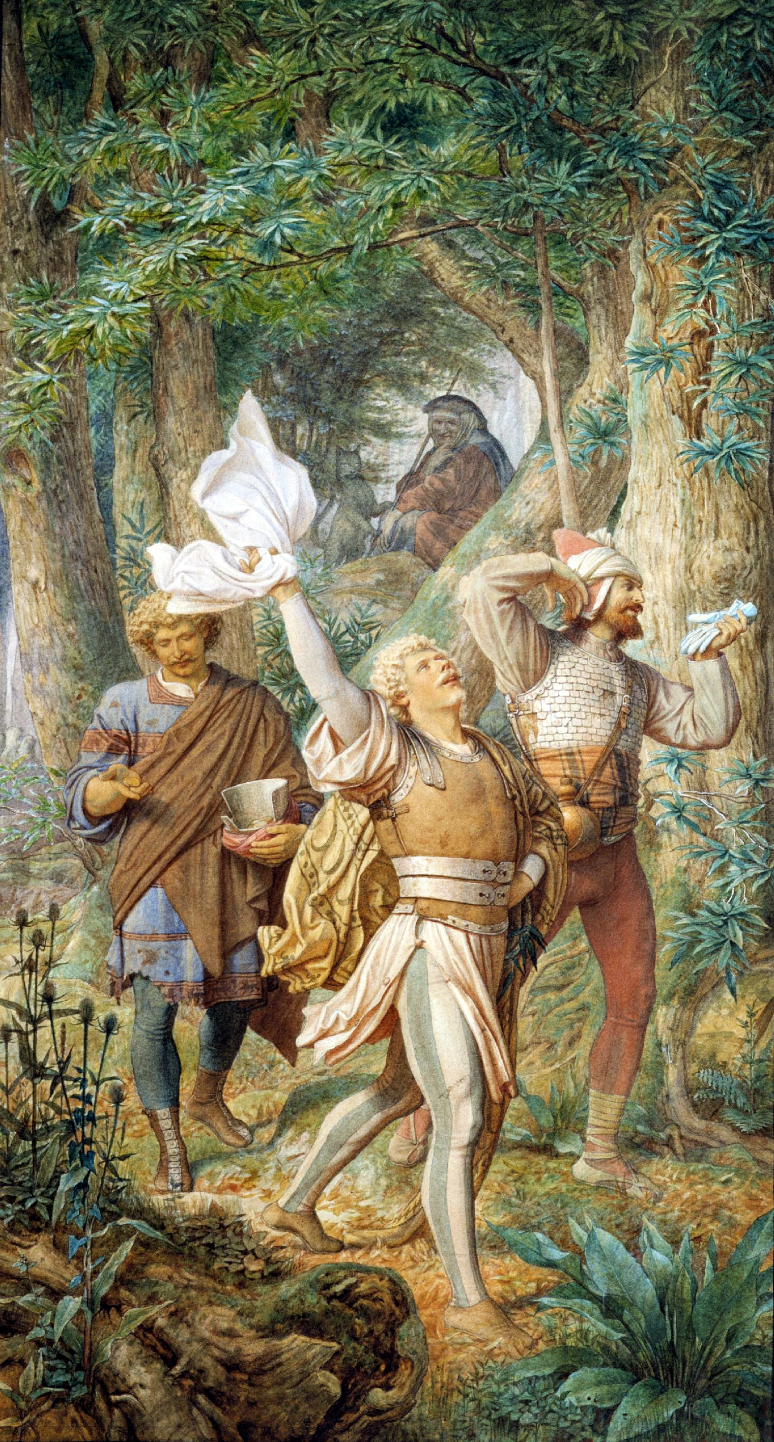 Die Rolandsknappen von Ferdinand Becker, 1876